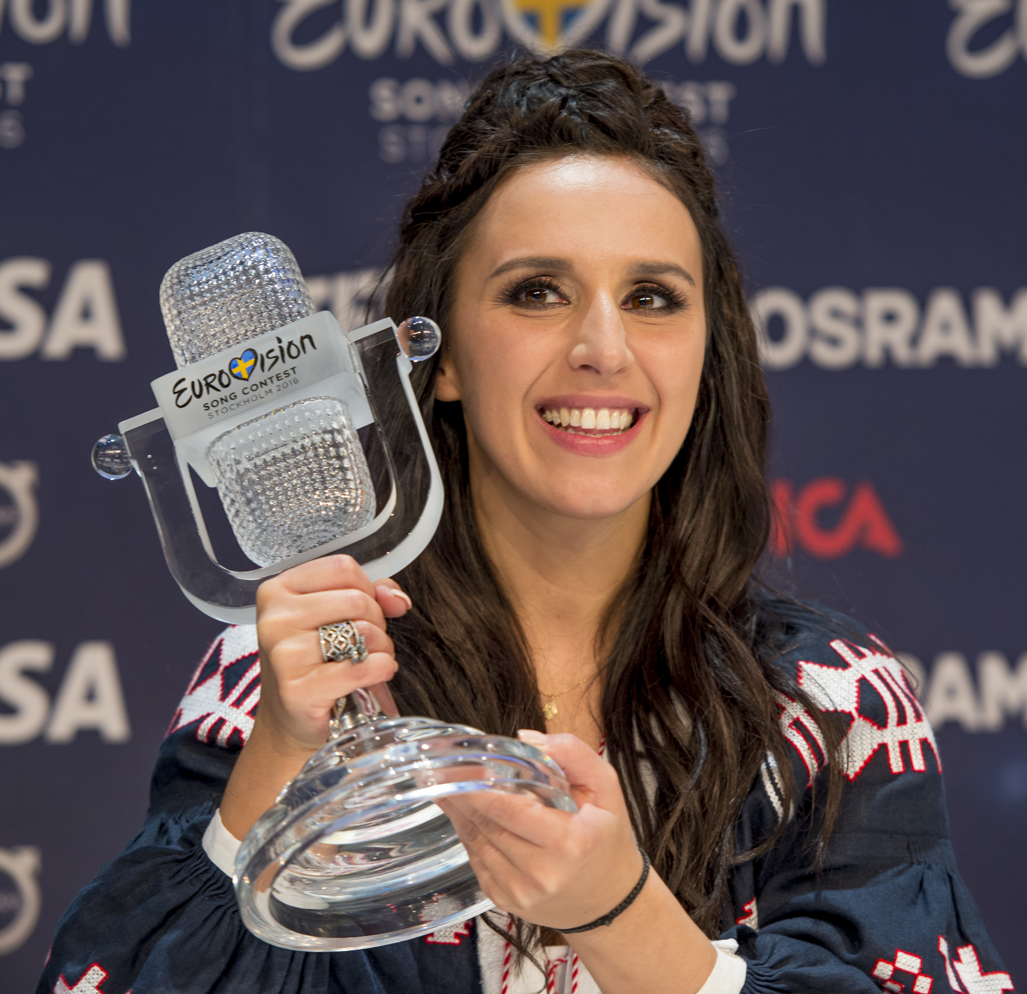 Jamala at the winners press conference, right after winning the Eurovision Song Contest 2016 in Stockholm. (Help translate this text)